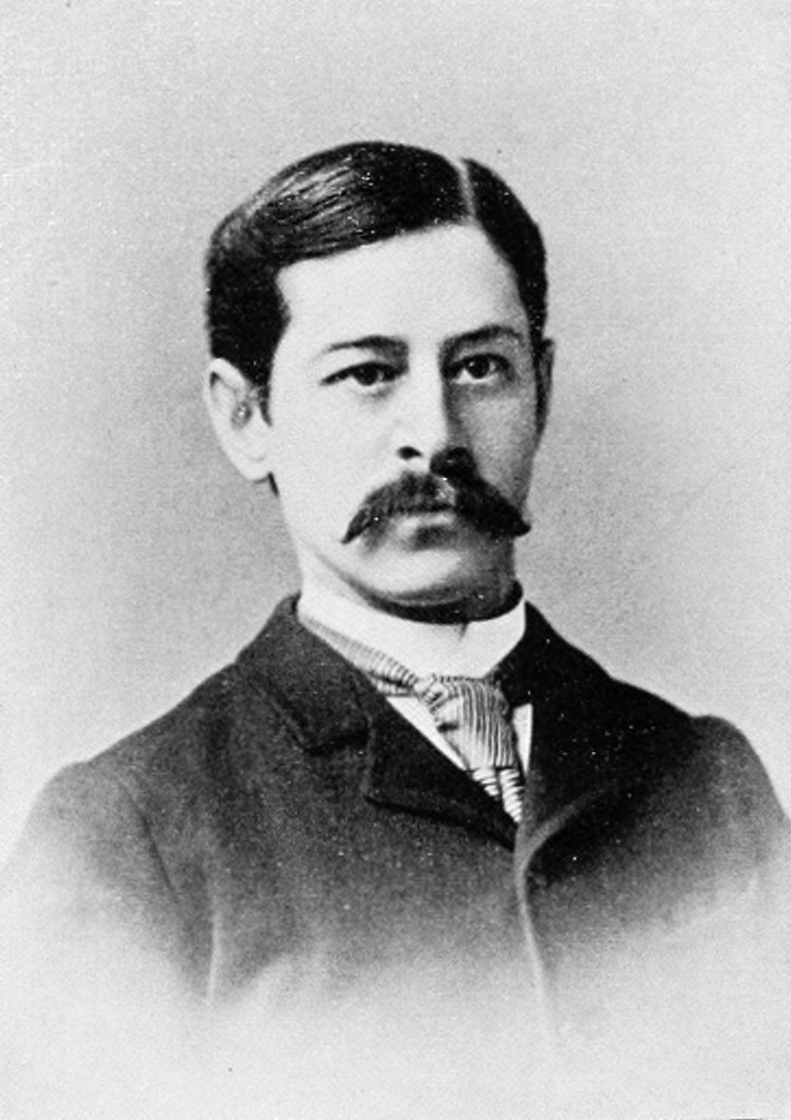 Photograph of Edwin Grozier (1859-1924), publisher of the Boston Post from 1891 until his death.